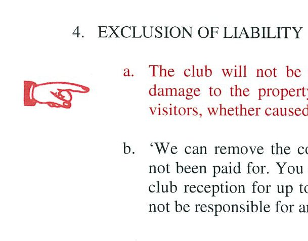 A red hand stamp pointing to an unfair contract term